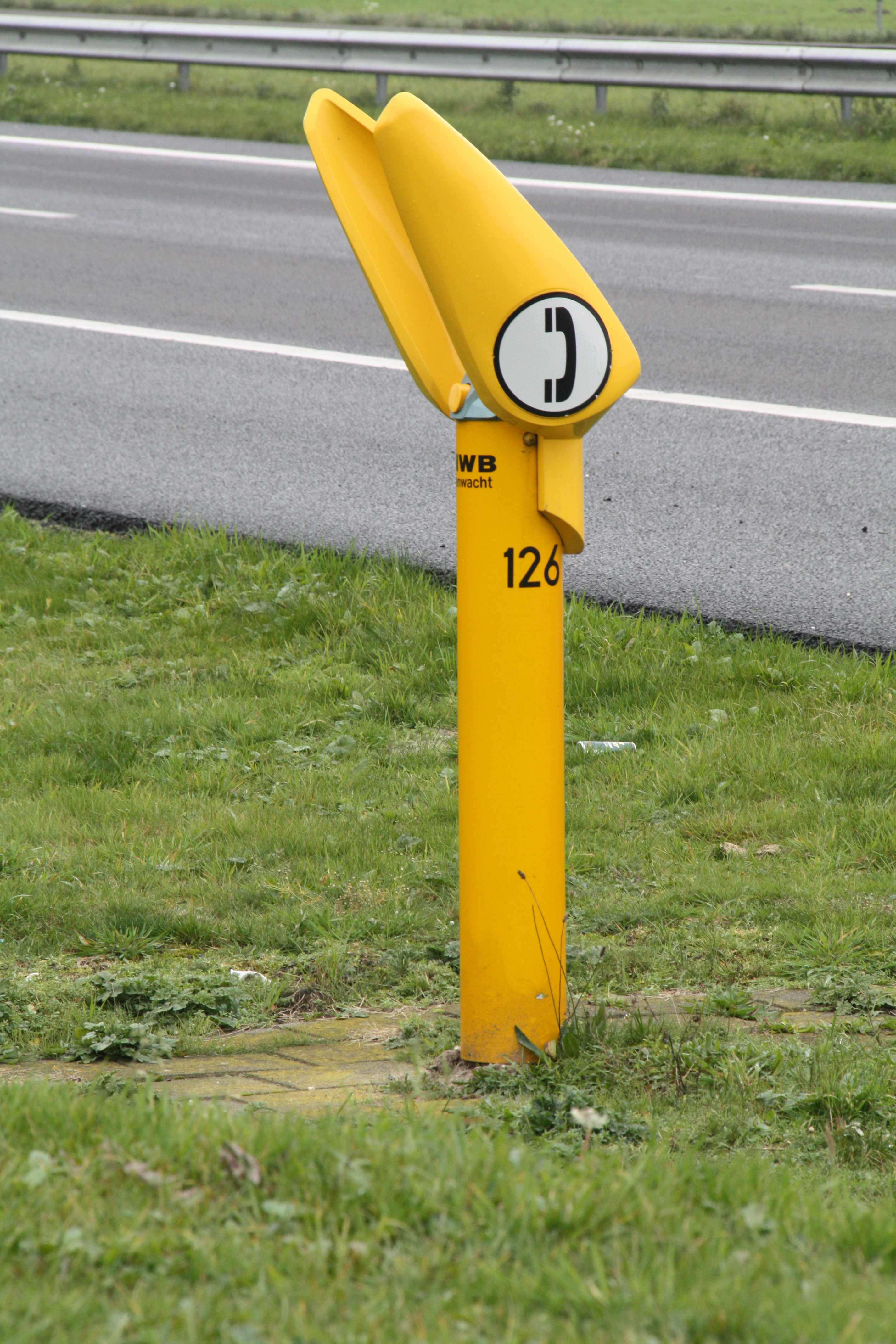 Emergency telephone